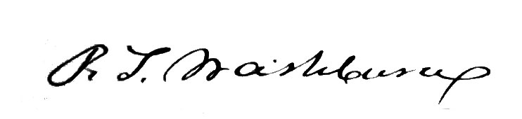 Signature of Governor Peter T. Washburn from the Franklin House Guest Register which is in the collection of H. Blair Howell. The Franklin House was the primary hotel in Rutland, VT from the early 19th century up until the mid-19th century. It was located next to the Rutland County Courthouse. It burned in 1868 and was never rebuilt.